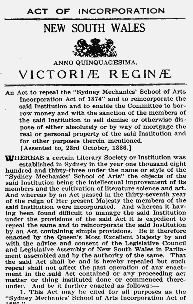 Text of the Act of NSW Parliament which repeals the "Sydney Mechanics' School of Arts Incorporation act 1874" and reincorporates it in 1886 with the right to borrow money.